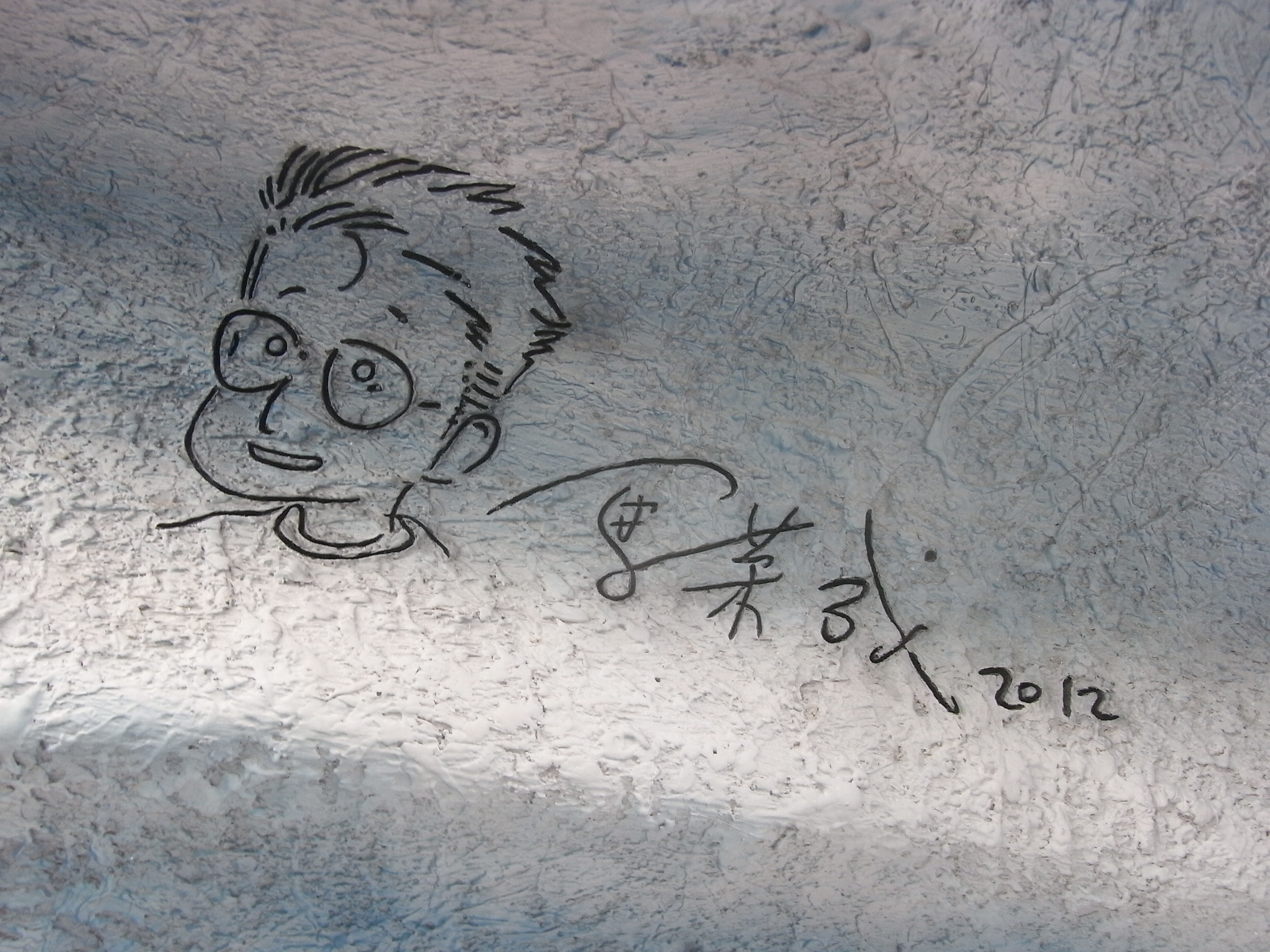 香港漫畫星光大道 馬榮成, Hong Kong Avenue of Comic Stars, Kowloon Park, Nathan Road, Tsim Sha Tsui, Hong Kong